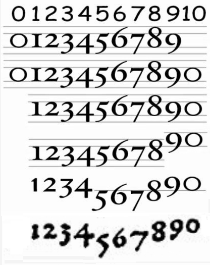 Evolutions of Arabic Numerals